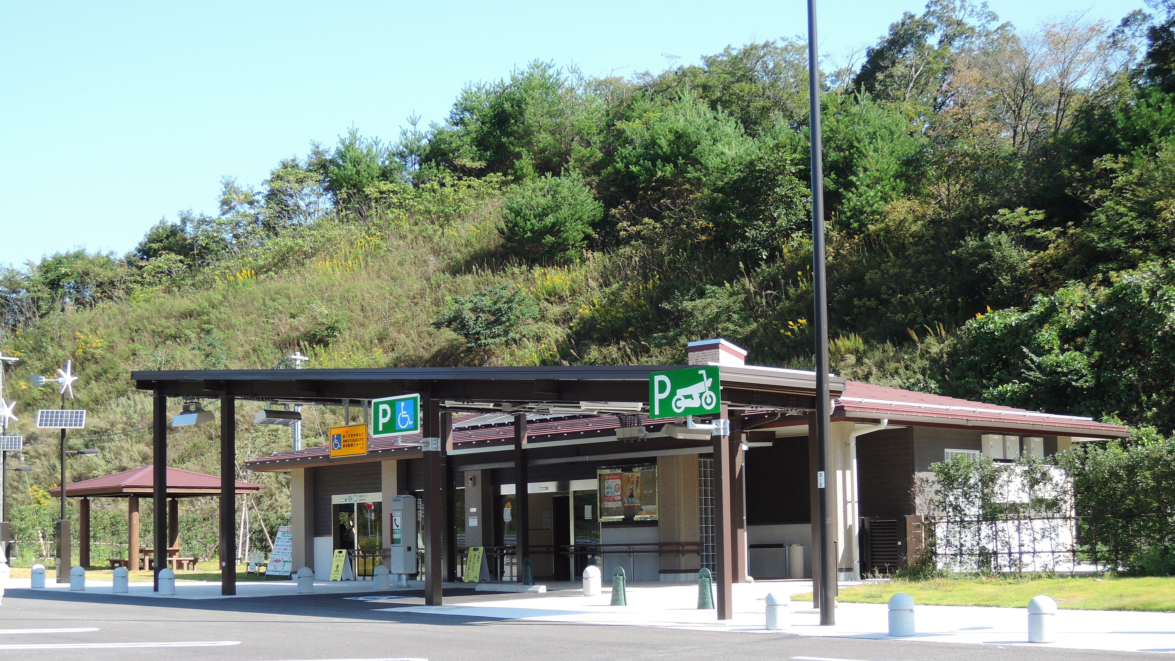 Kamoiwakura Parking Area ,Shimane prefecture, Japan